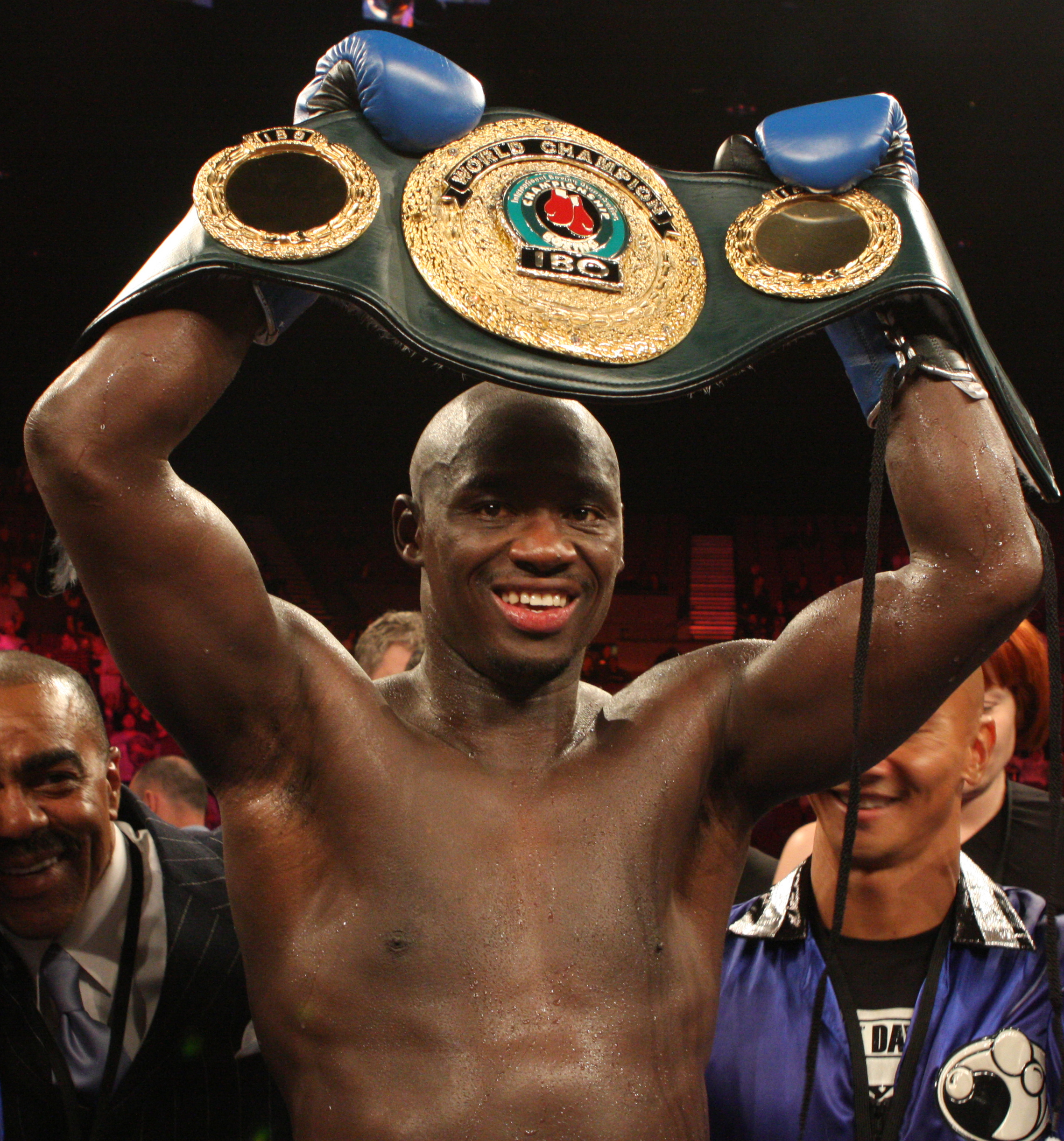 Antonio Tarver after a boxing match against Danny Green in July 2011.